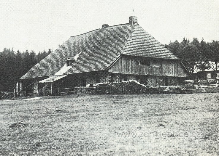 Postcard of Zlatá Studna (german:Goldbrunn), small village in the Bohemian Forest and part of Horská Kvilda. Once being an important place for glass industry in the region, the village was destroyed in 1950, the inhabitants already left it in the early 20th century.